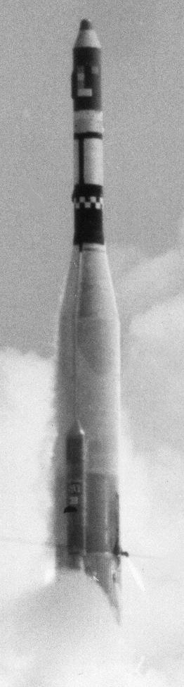 Launch of Atlas SLV-3 Agena D rocket with spy satellite KH-7 10